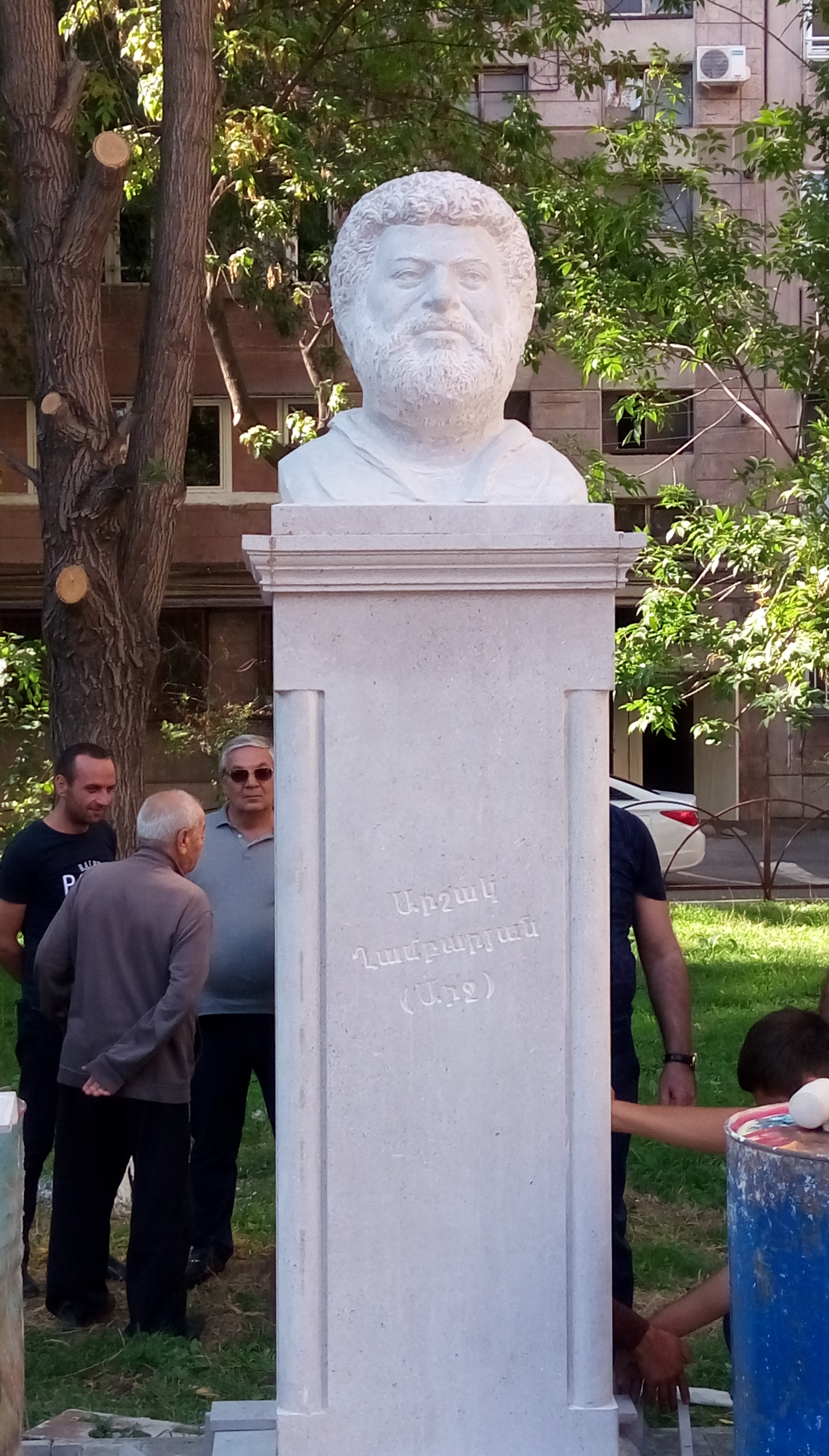 Arshak Ghambaryan (Bear), Yerevan, Shengavit District, 2018